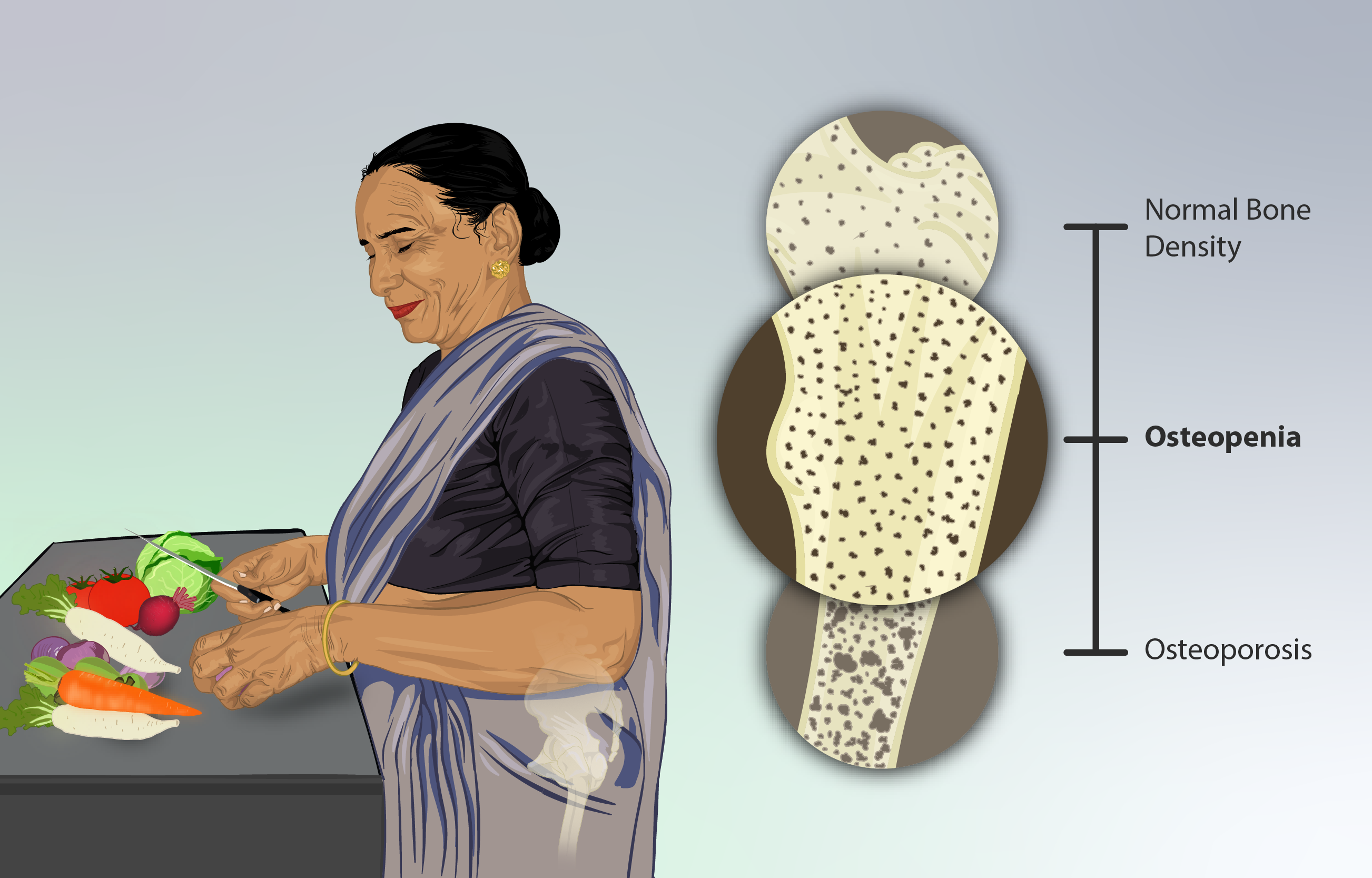 This is a depiction of a woman suffering from Osteopenia. The loss of bone mass has been shown, in comparison to Osteoporosis (a more advanced condition) and a normal bone.